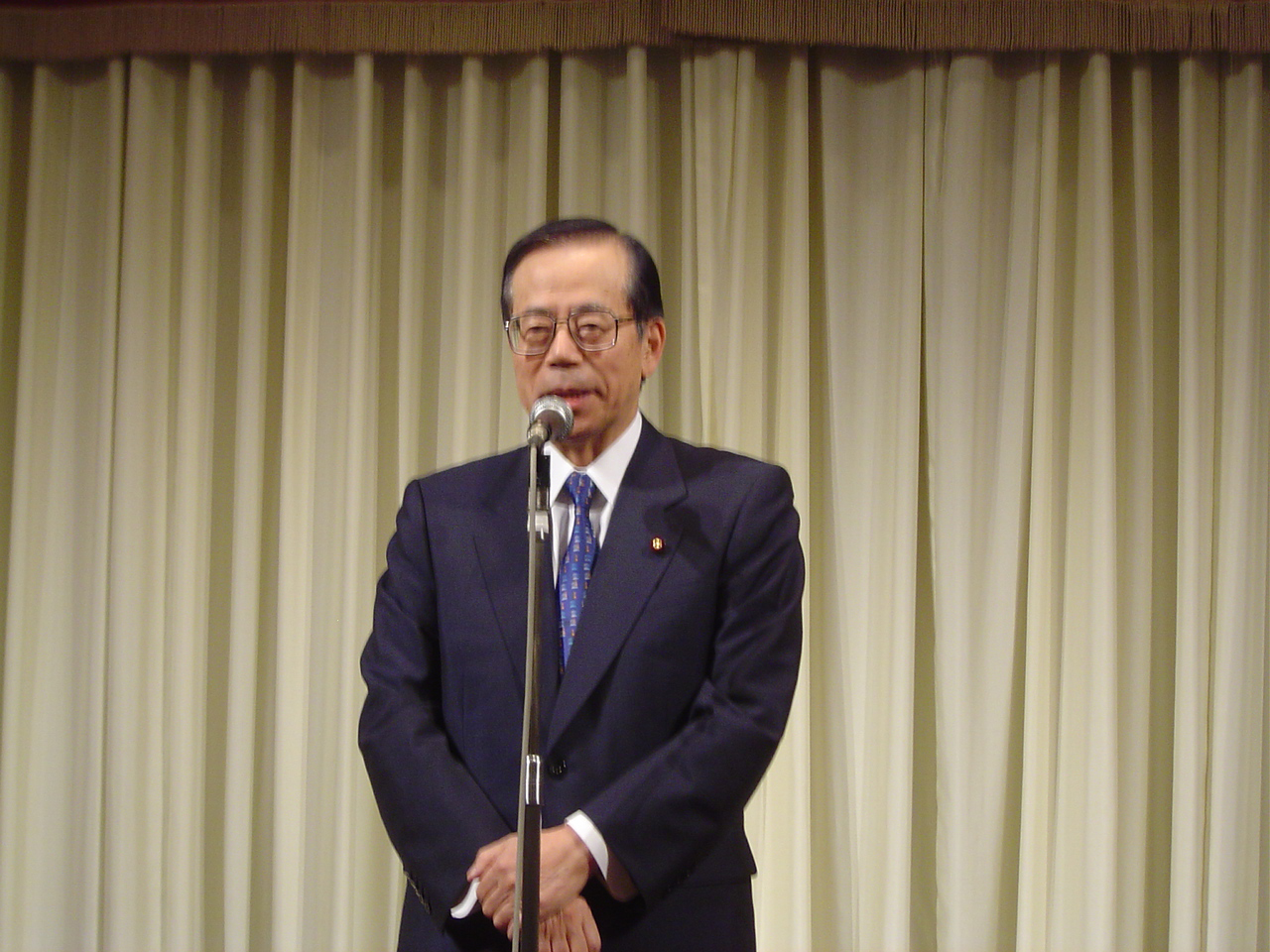 Future Japanese Prime Minister Rep. Yasuo Fukuda (1936–, in office September 2007– ) welcomes his supporters at his fundraising party held at Akasaka Prince Hotel, Tokyo.